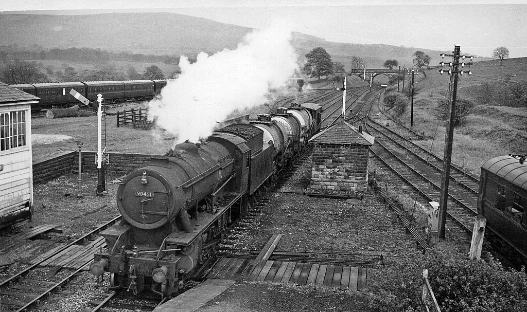 Down train of tank wagons at Bolton Abbey Station. View SE, towards Ilkley; ex-Midland Skipton - Ilkley line, closed 22/3/65. (The section westward from Bolton Abbey to Embsay was acquired by the Embsay & Bolton Abbey Steam Railway and preserved, from 1/5/98). The short train of oil-wagons was headed by ex-War Department 2-8-0 No. 90451